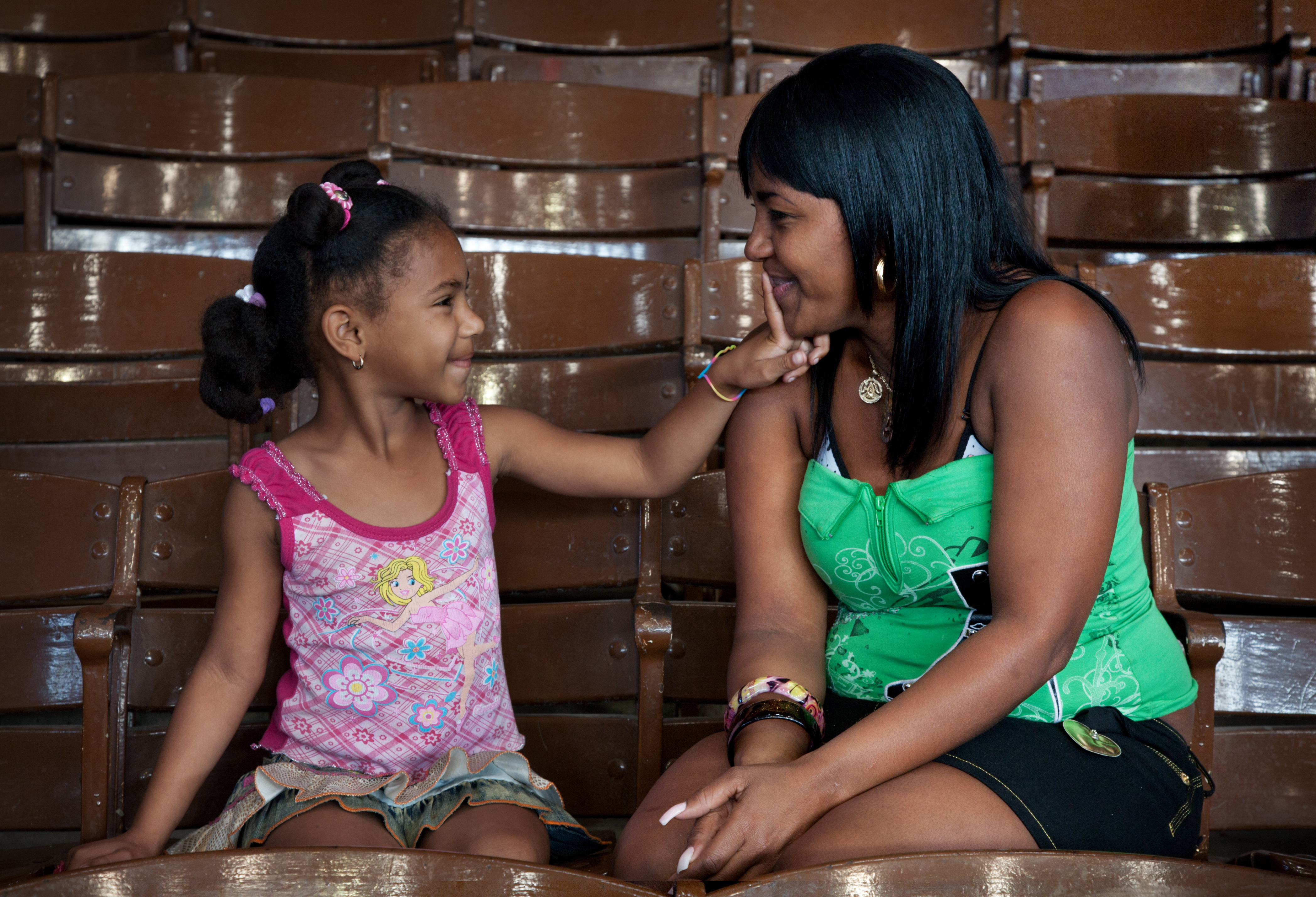 Mother and child at play at the Ciudad Deportiva. Havana (La Habana), Cuba